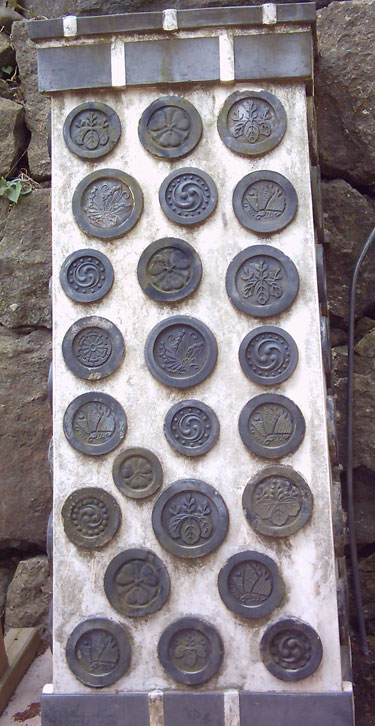 taken with a digital camera at Himeji Castle in Hyogo Prefecture, Japan. i release this to the public domain.